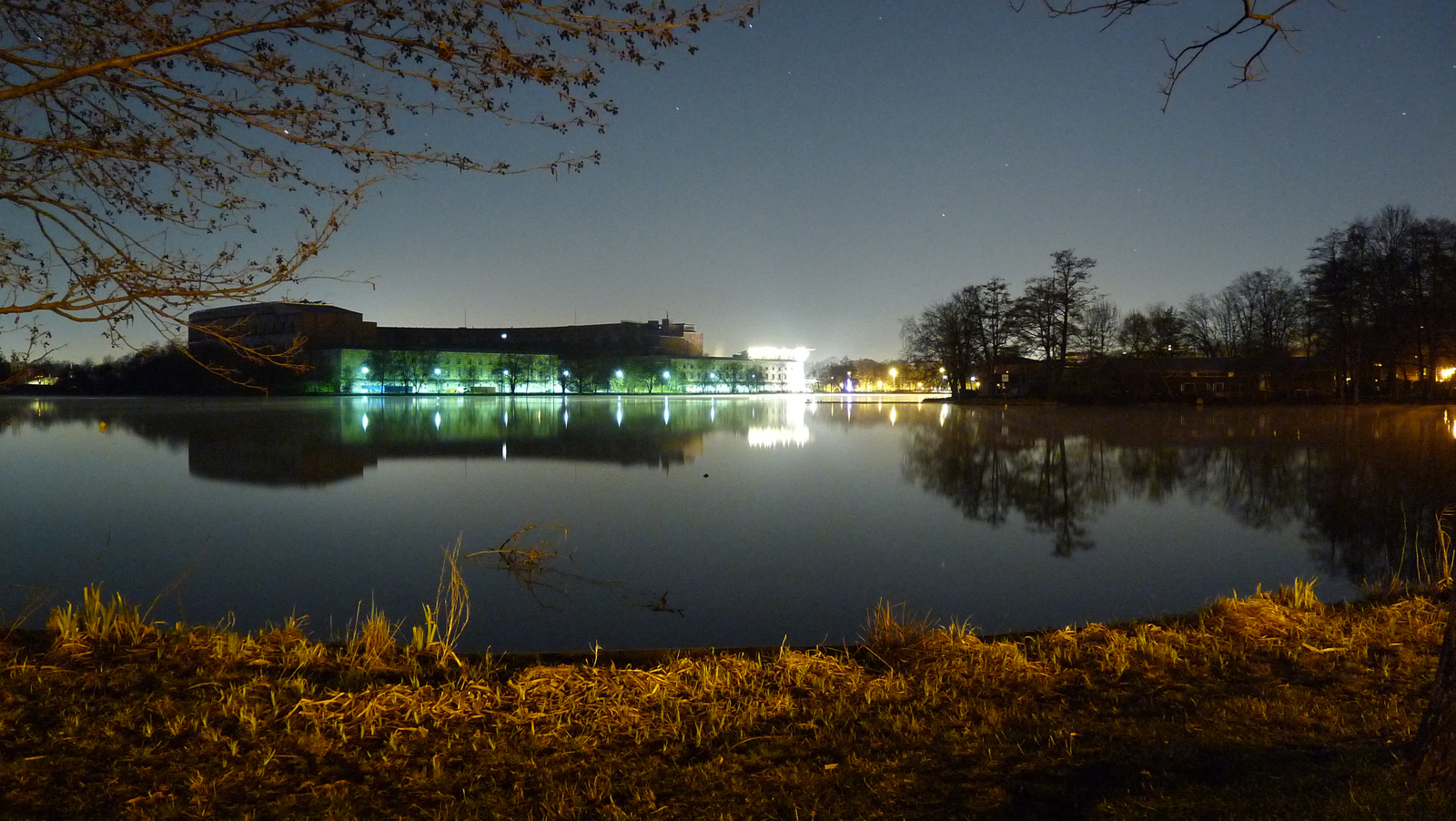 Dokuzentrum in Nurnberg, Germany. Situated next to the Nazi Rally grounds.